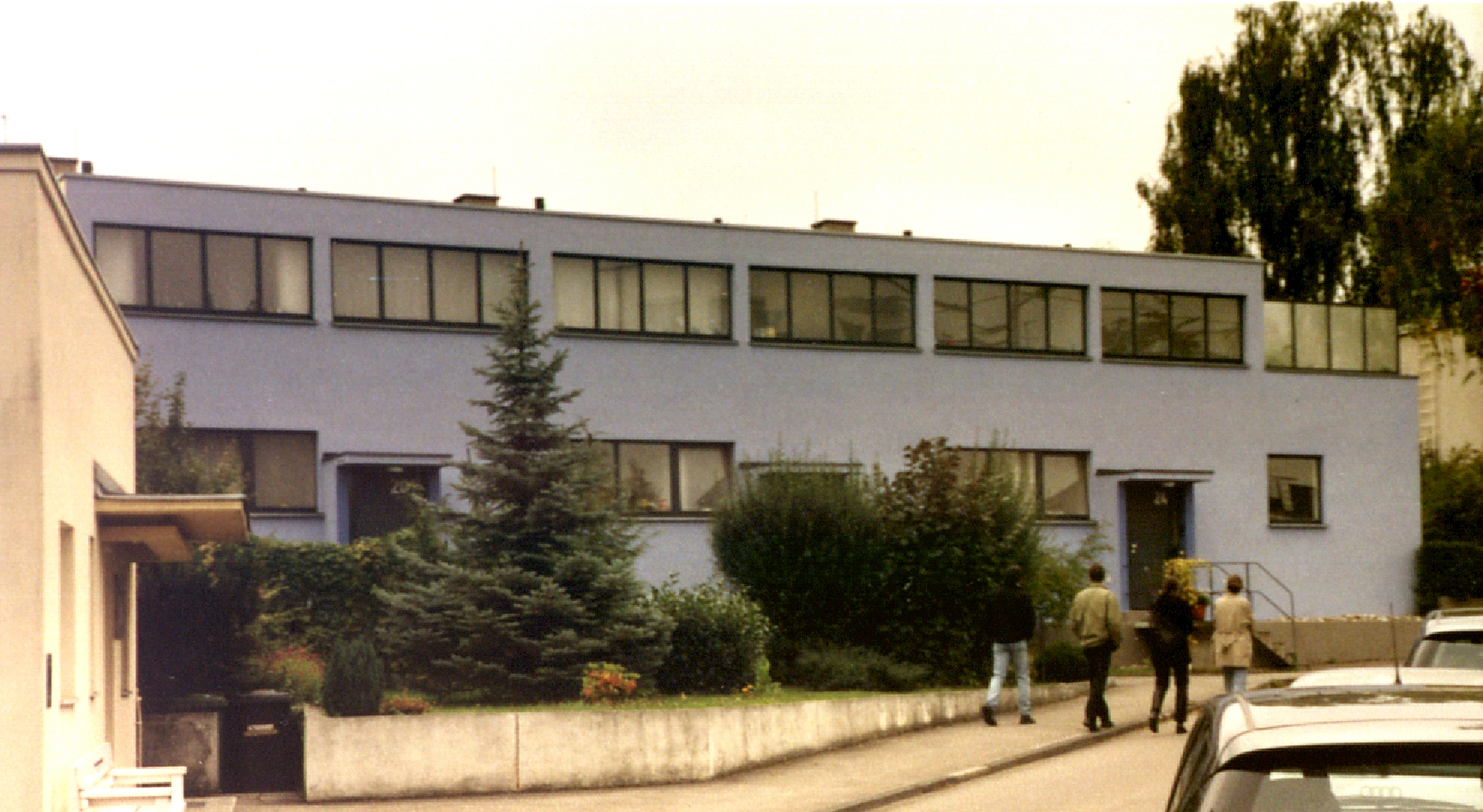 Stuttgart-Weissenhof, Germany House by Mart Stam, 1927. International style. analogue photography taken by shaqspeare, September 2001, scanned 2005 GFDL